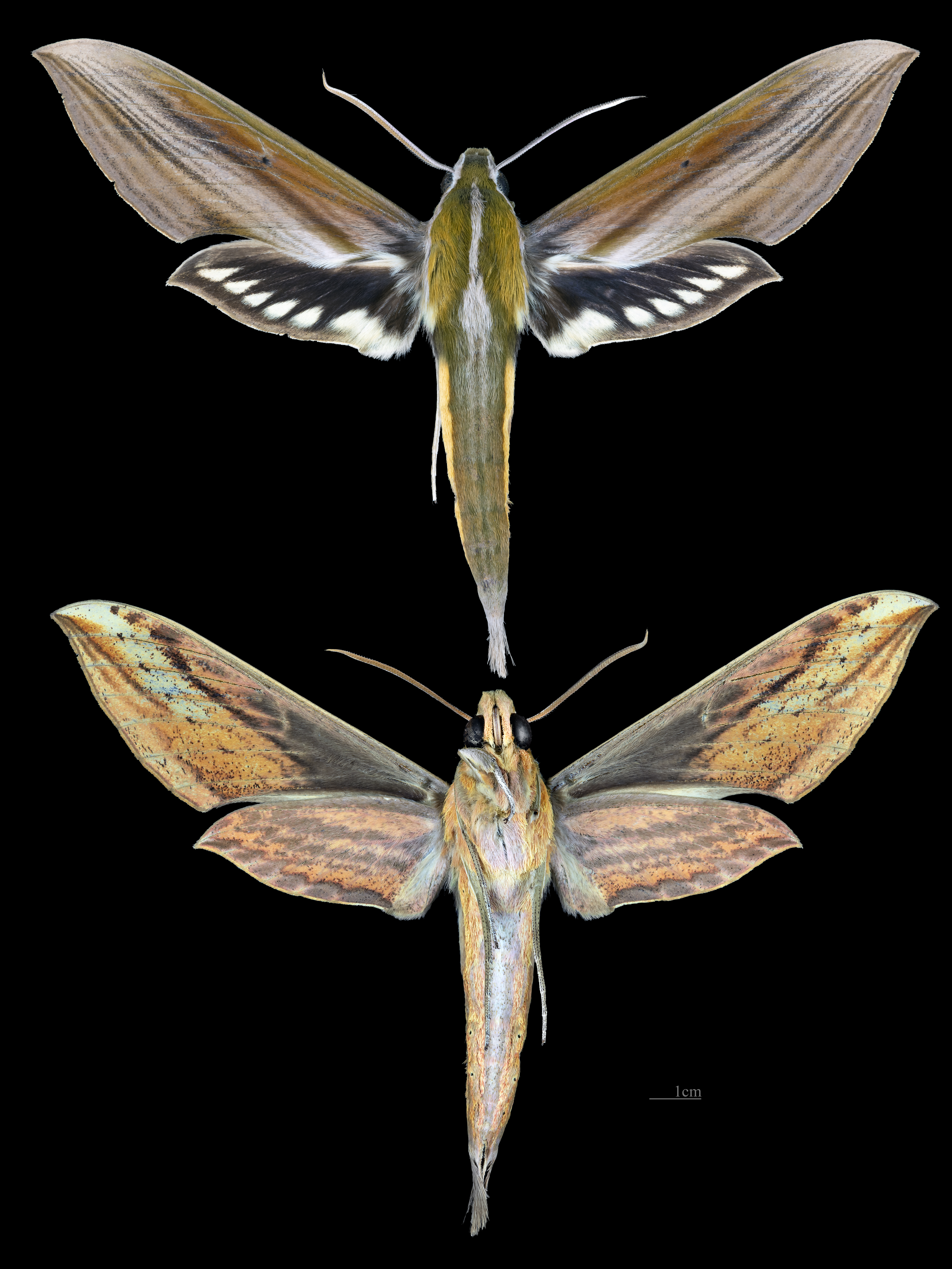 Xylophanes resta - Two views of same specimen Collection of the Mathematician Laurent Schwartz